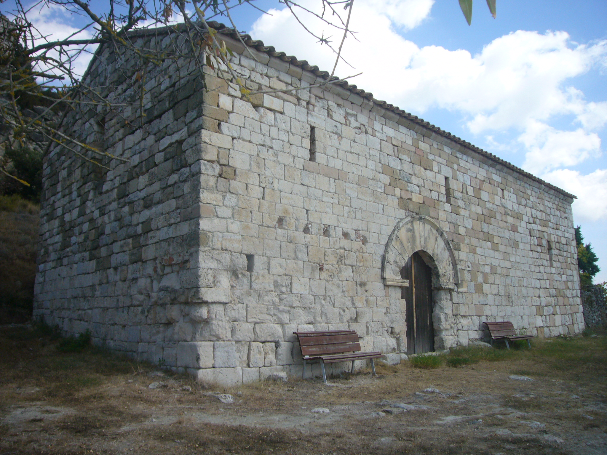 Església de Santa Maria del Castell de Miralles